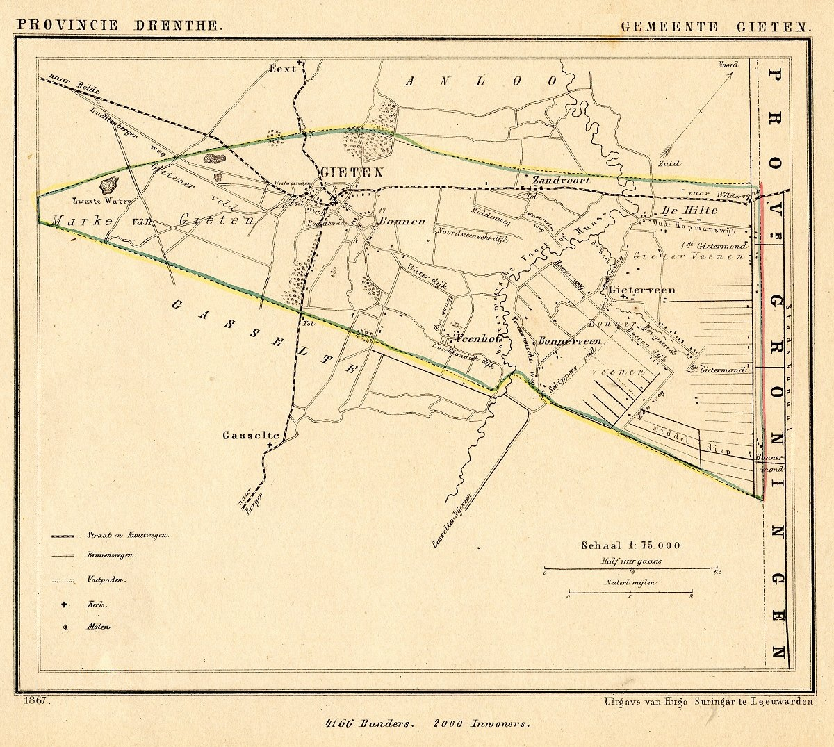 Map from 1867 of the former municipality of Gieten (Province of Drenthe, Netherlands). The four municipalities of Gieten, Rolde, Gasselte and Anloo joined in 1998 to form the current municipality of "Aa en Hunze".